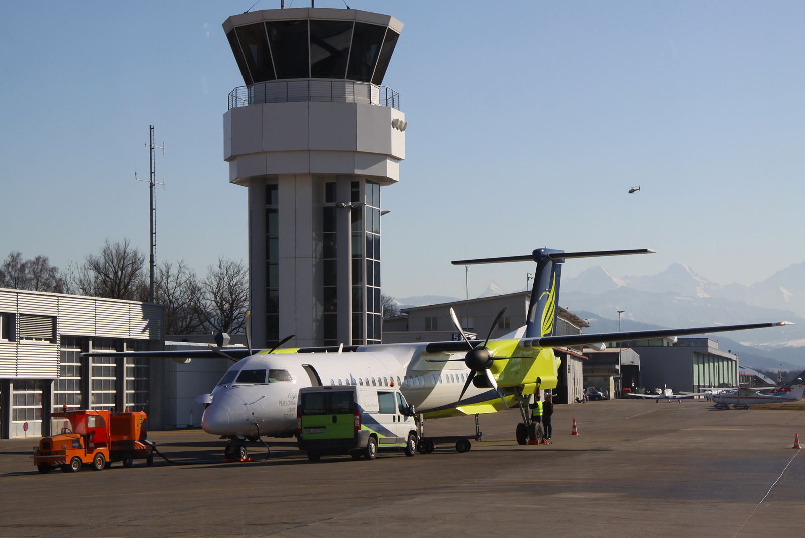 HB-JGA in front of the atc tower in LSZB